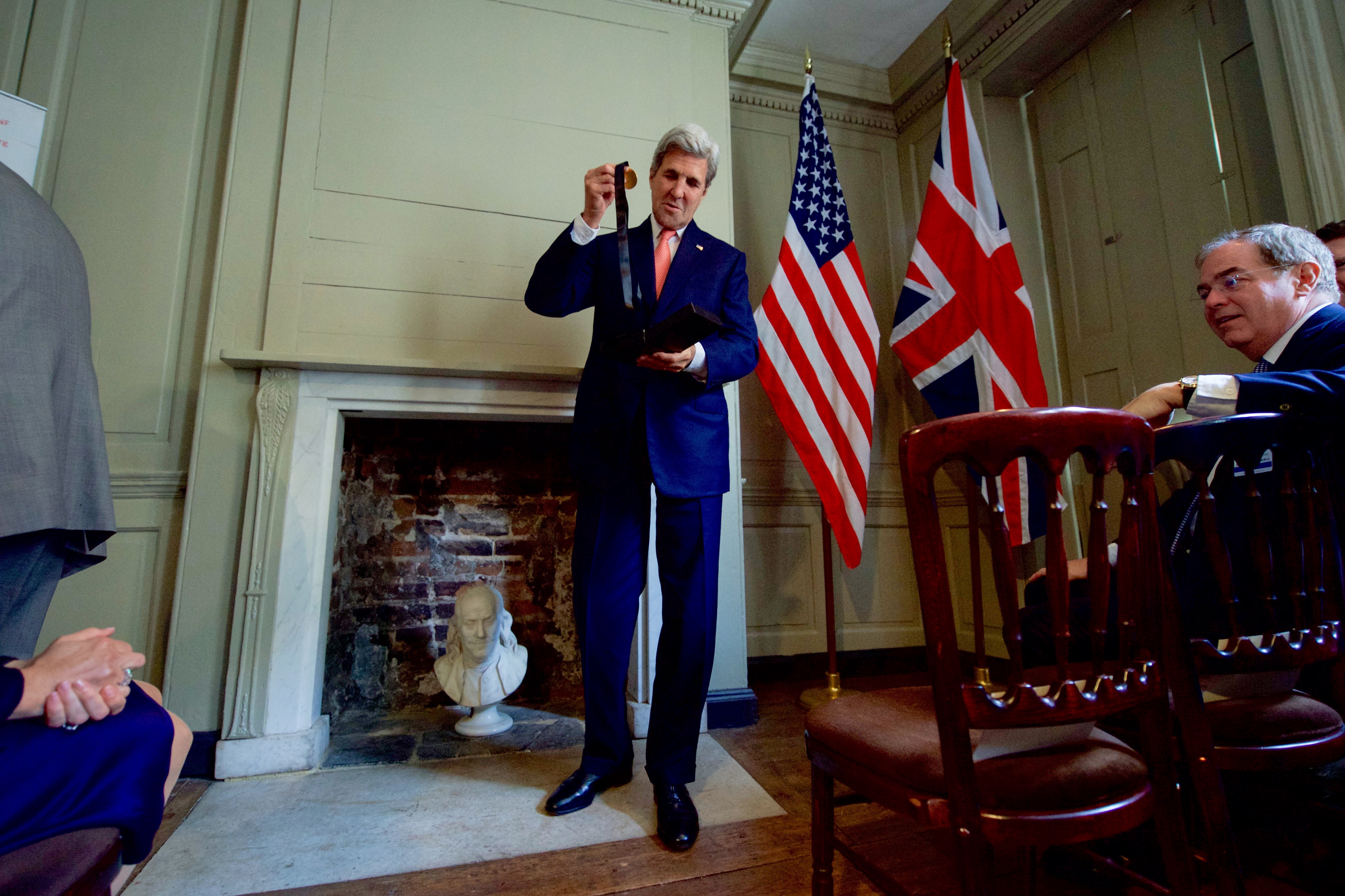 U.S. Secretary of State John Kerry puts away the Benjamin Franklin Medal for Leadership after Sir Bob Reid, Chairman Emeritus of the Benjamin Franklin House, presented it to him at the Benjamin Franklin House in London, U.K., on October 31, 2016. [State Department photo/ Public Domain]